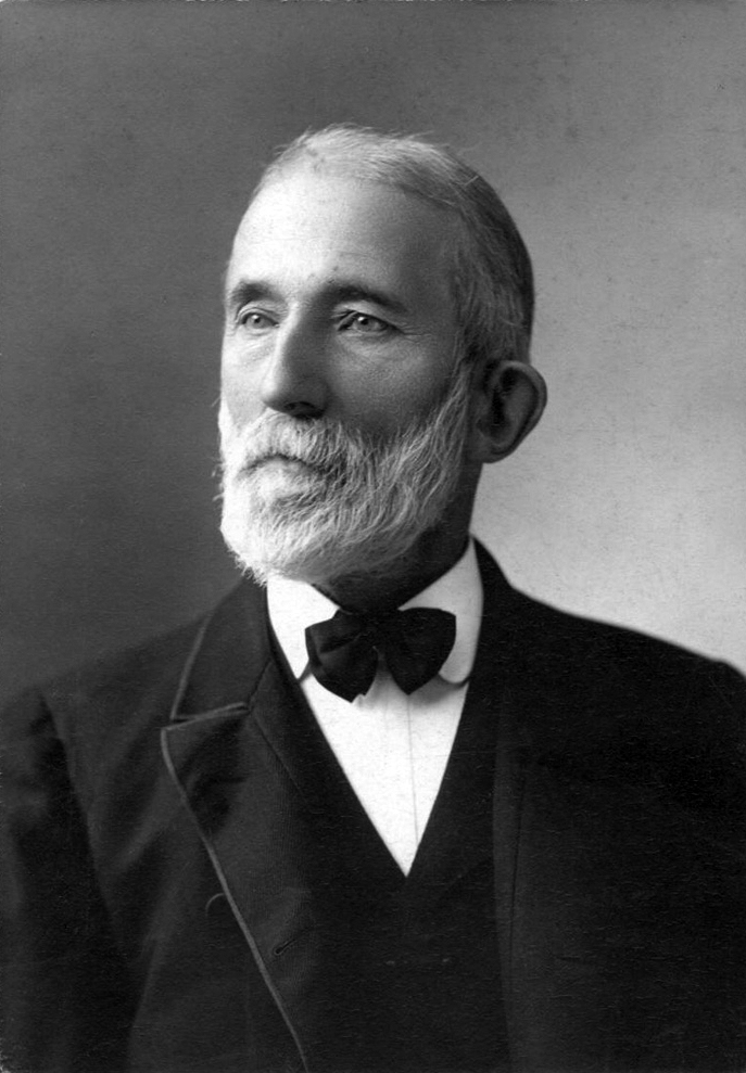 Photograph of George Edward Davenport